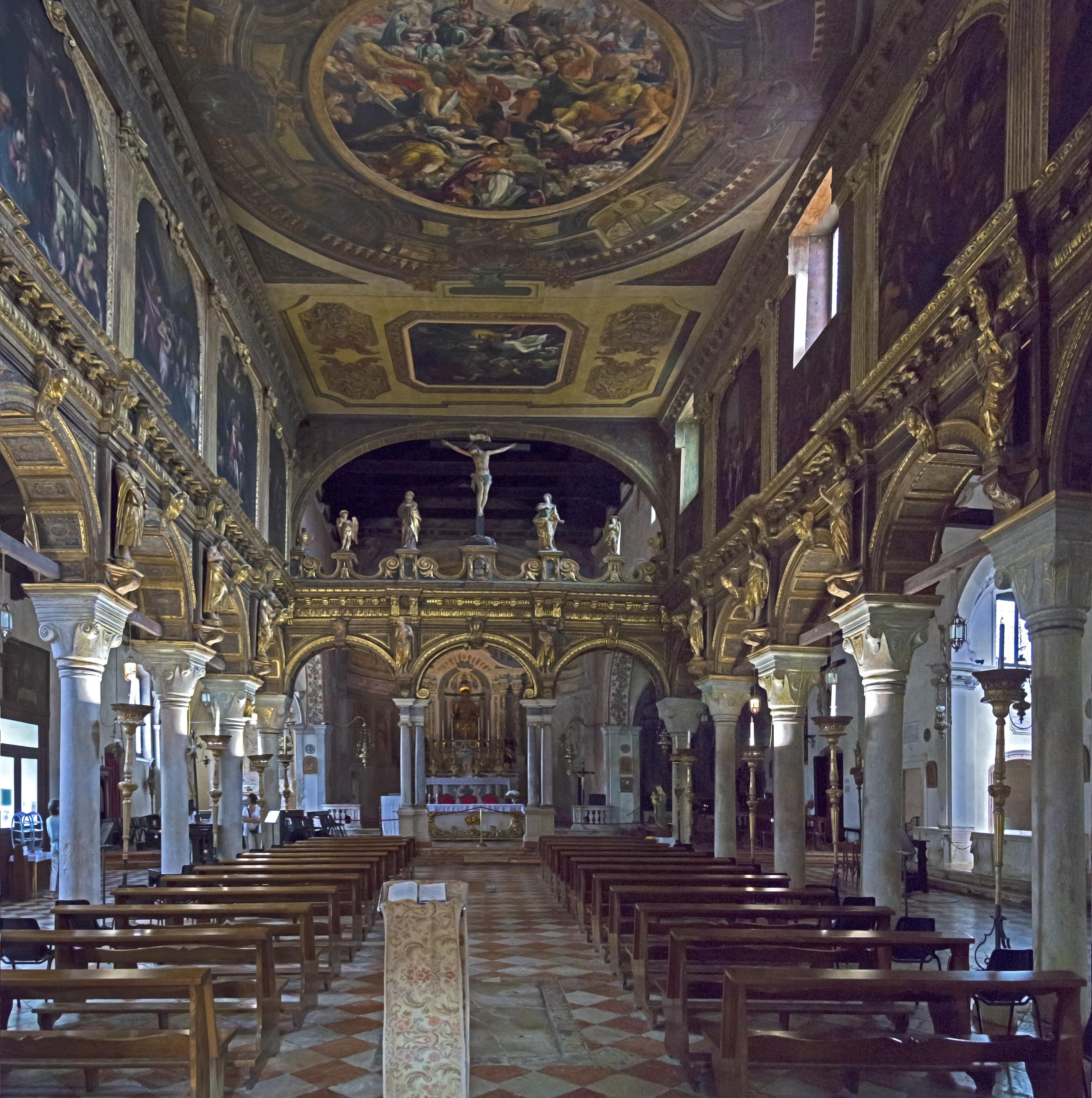 Church of San Nicolò dei Mendicoli Venice. Interior